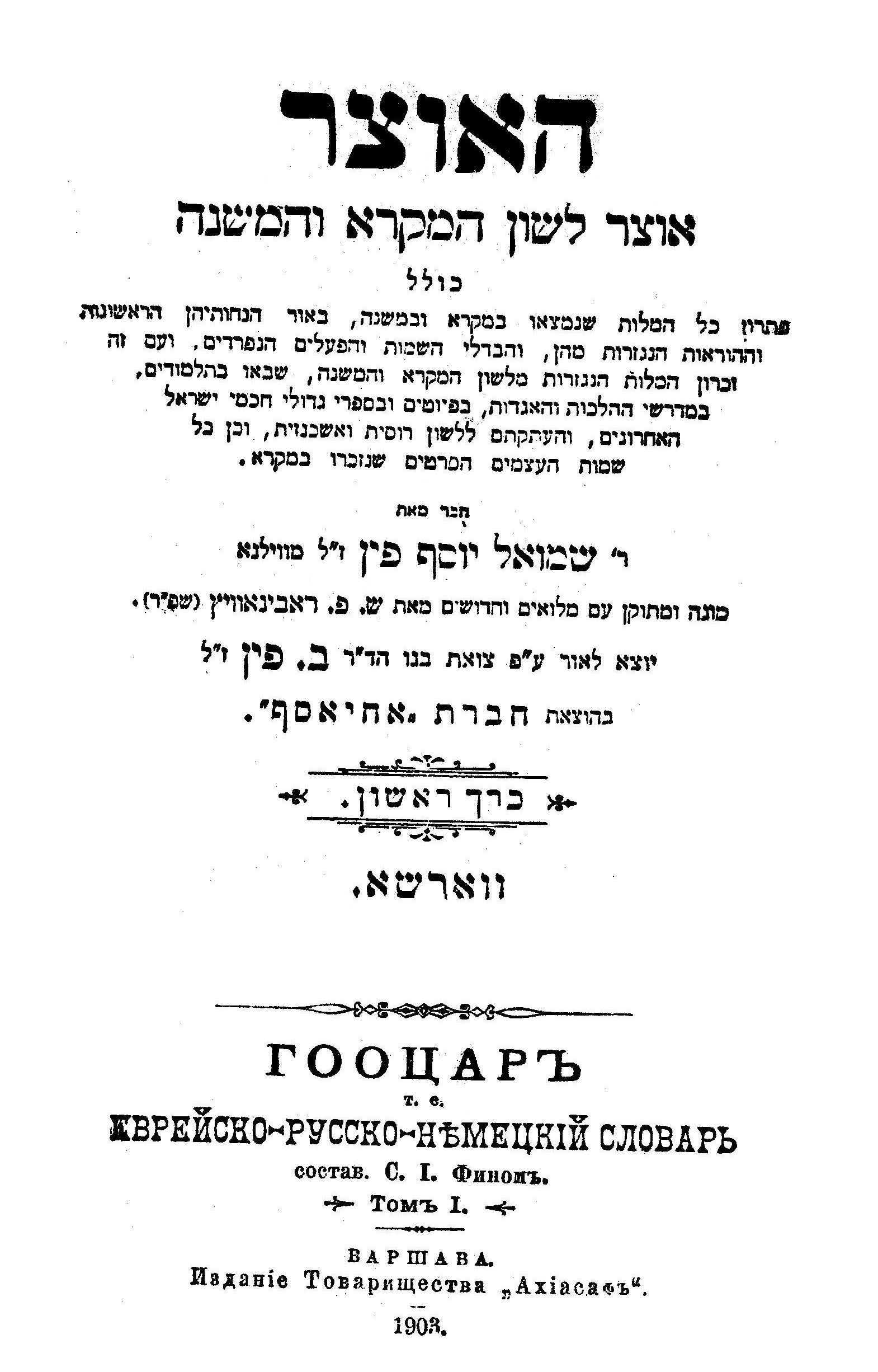 Front page of Samuel Joseph Fuenn's "Ha-Otzar", printed Warsaw 1903